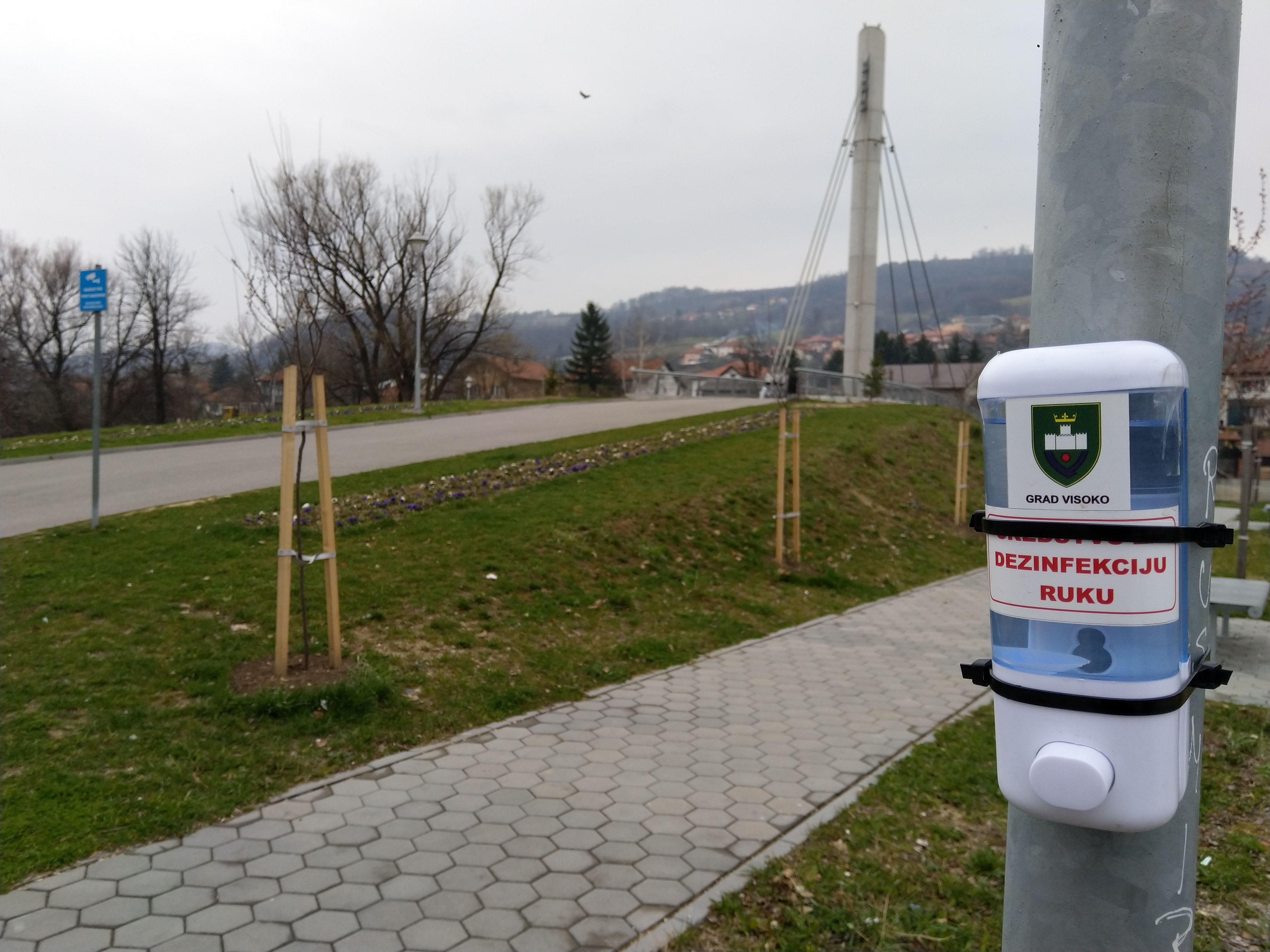 Makeshift hand sanitizers attached do lamp post, a measure taken in Visoko to counter the COVID-19 pandemic